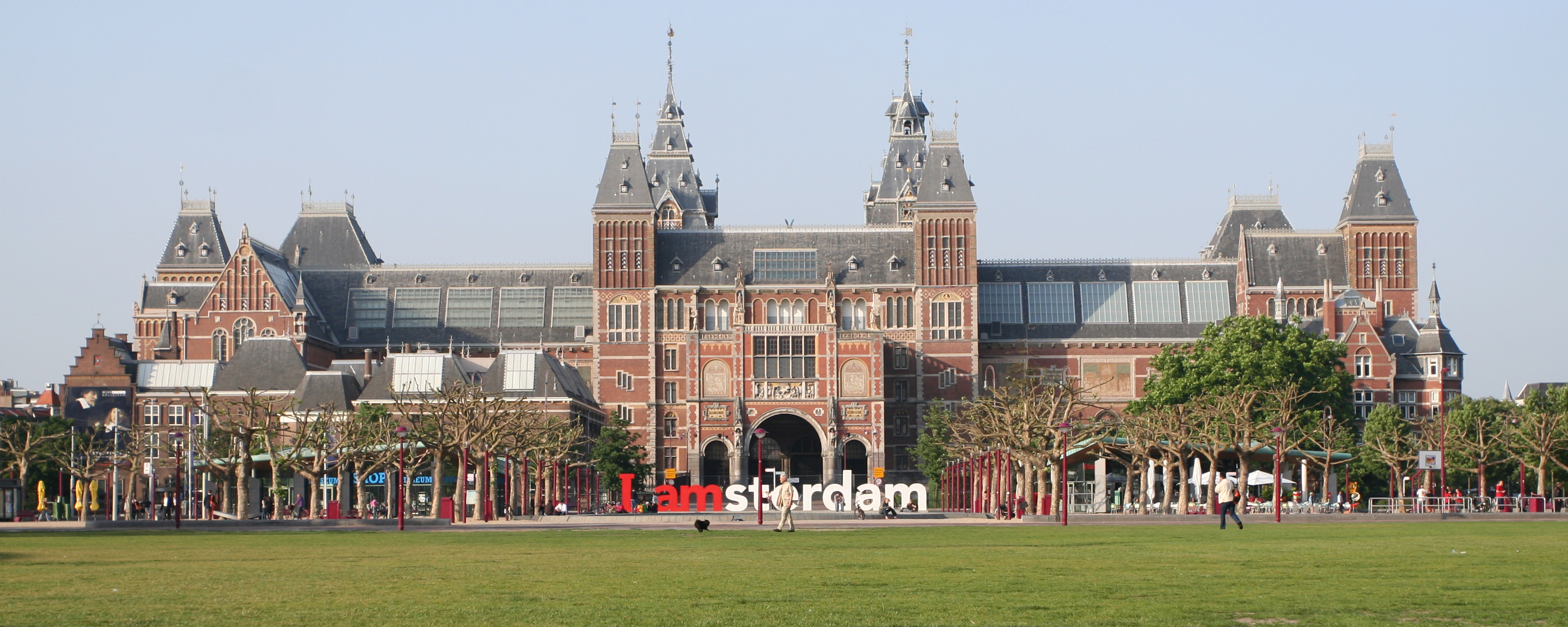 A photograph taken of the Rijksmuseum in Amsterdam. Cropped to 2.50:1 aspect ratio.